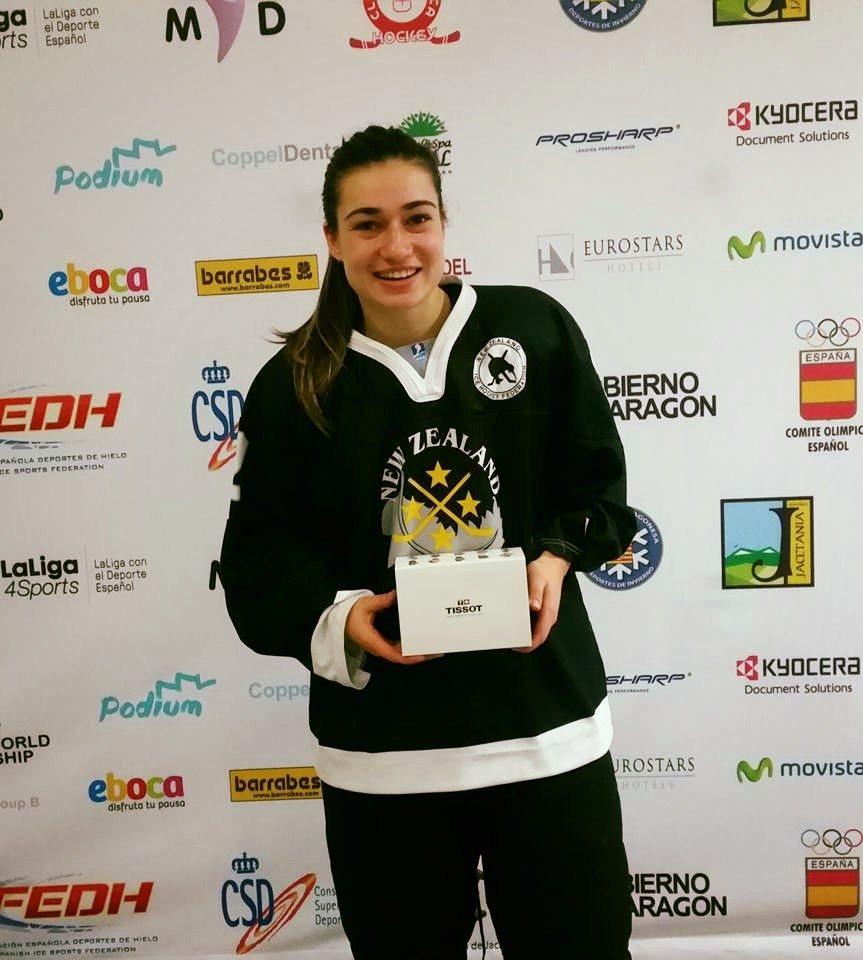 Anjali Thakker of Team New Zealand with her IIHF Tissot watch award for Best Player for Team NZL at the 2016 IIHF Ice Hockey Women's World Championship Division 2 Group B.